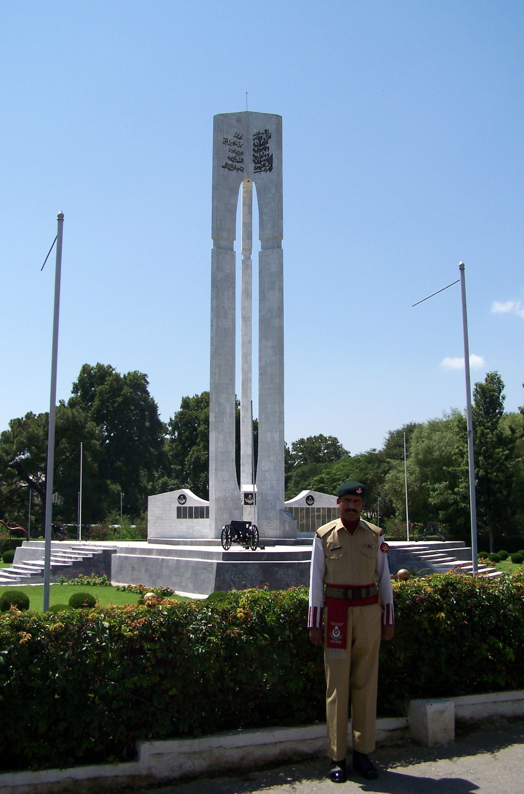 Baloch Regiment War Memorial at the Baloch Regimental Centre, Abbottabad, Pakistan.